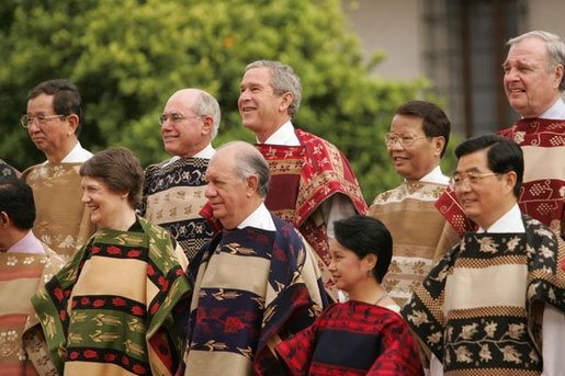 U.S. President George W. Bush smiles for a group photo with APEC leaders at La Moneda Presidential Palace in Santiago, Chile, Nov. 21, 2004. From left to right in this File: Special Envoy Yuan T. Lee of Chinese Taipei, Prime Minister Helen Clark of New Zealand, President George W. Bush of the United States, President Gloria Macapagal-Arroyo of the Philippines, President Tran Duc Luong of Vietnam, President Hu Jintao of the People's Republic of China, Prime Minister Paul Martin of Canada. Costume: Chamanto